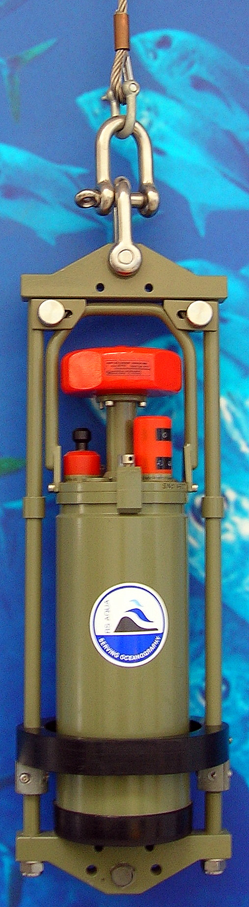 RCM-9 or Recording Current Meter. It can go to depths of about 2000 metres and last up to two years on one mission. It records information about currents (speed, direction, depth, temperature).